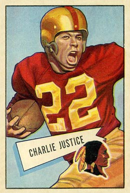 American football player Charlie Justice (American football player) on a 1952 Bowman Large card.